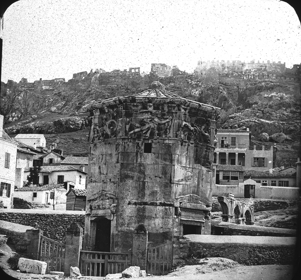 Tower of the winds, Athens, Greece. Tower of the winds, Athens. Brooklyn Museum Archives, Goodyear Archival Collection (S03_06_01_020 image 2452). Help us map this image by using Suggestify to suggest a location for it.